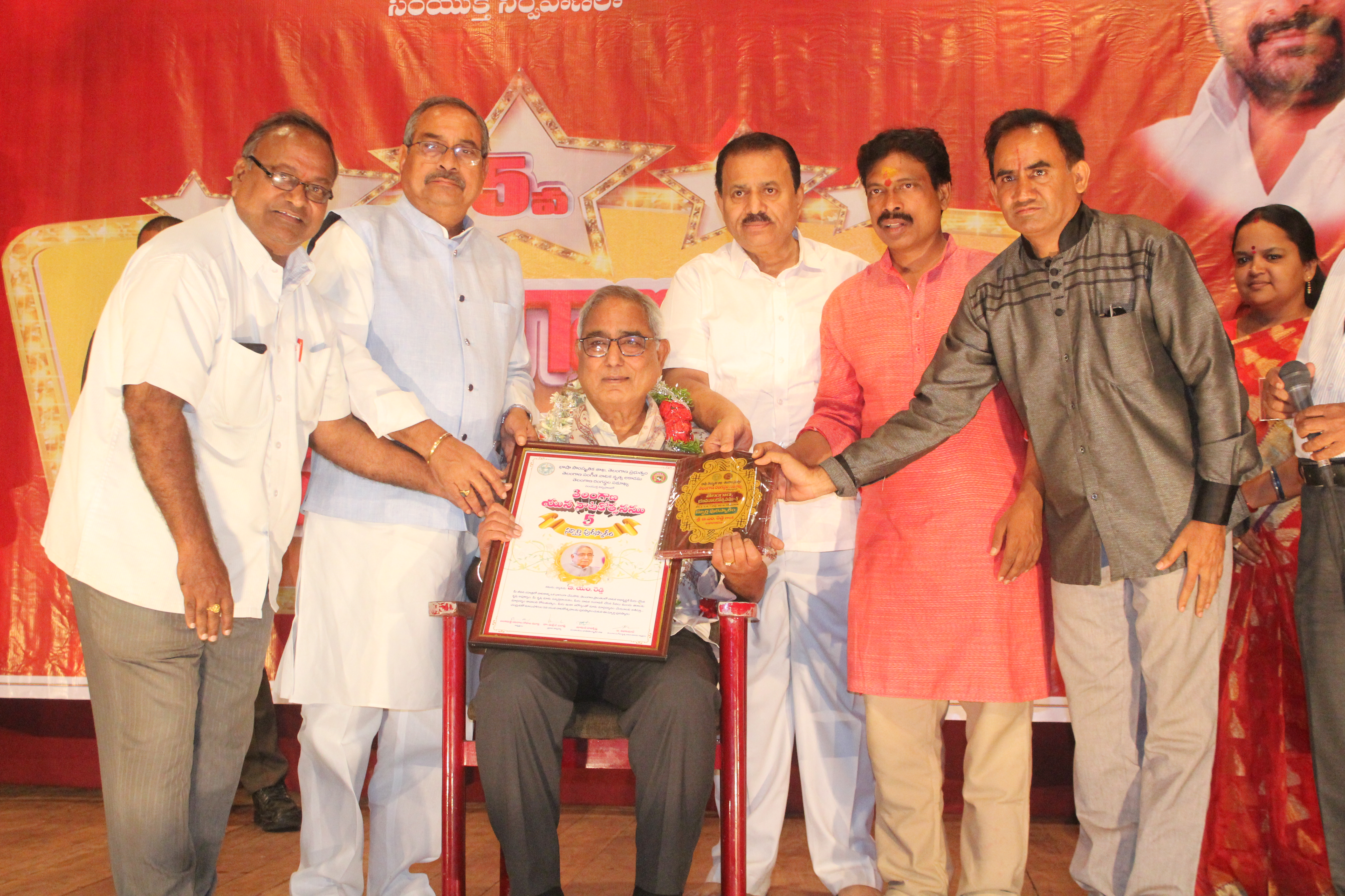 Telangana Yuva Natakotsavam 5th Edition - Felicitation to BN Reddy